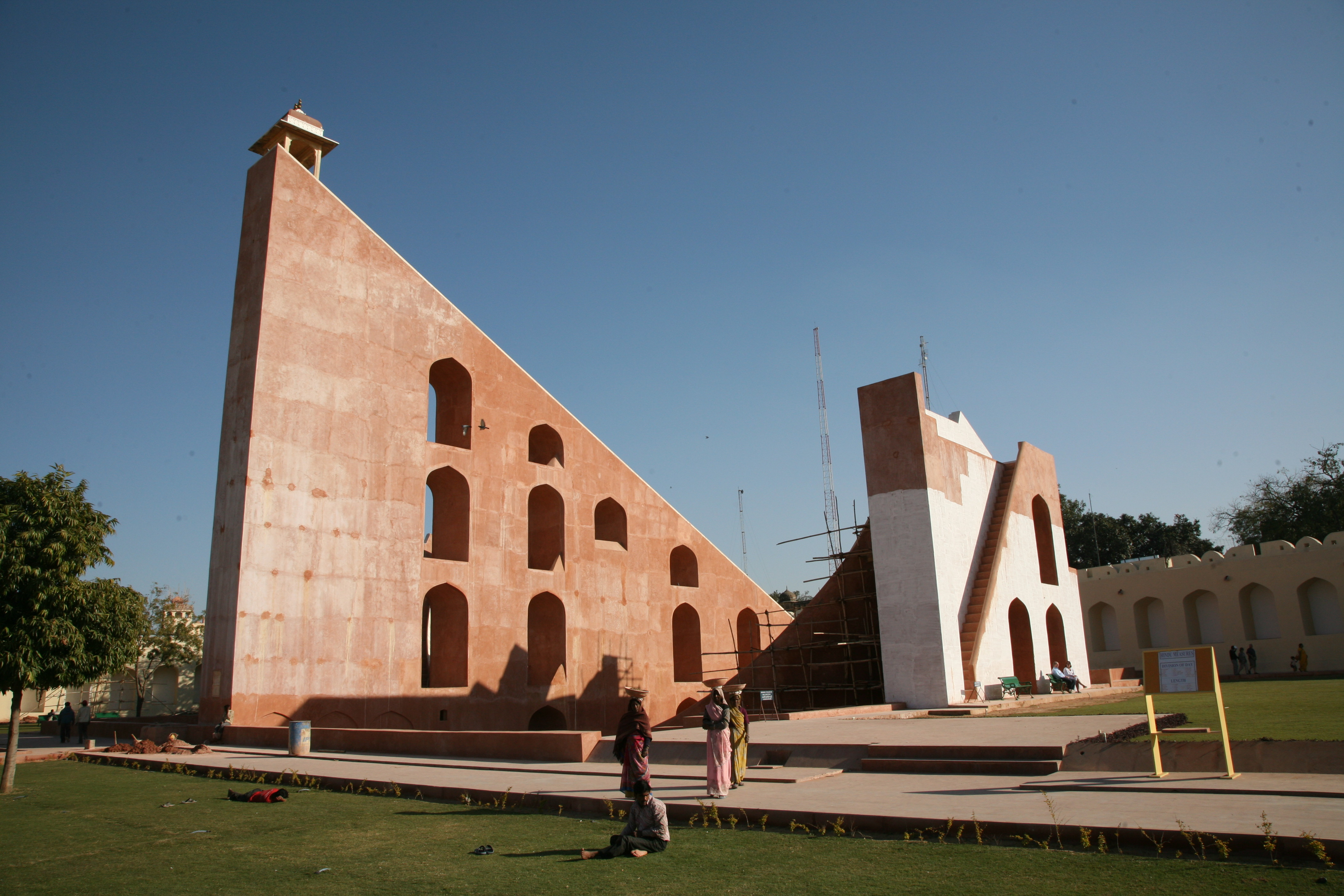 From Jantar Mantar in Jaipur. The Samrat Yantra is the largest sundial in the world.